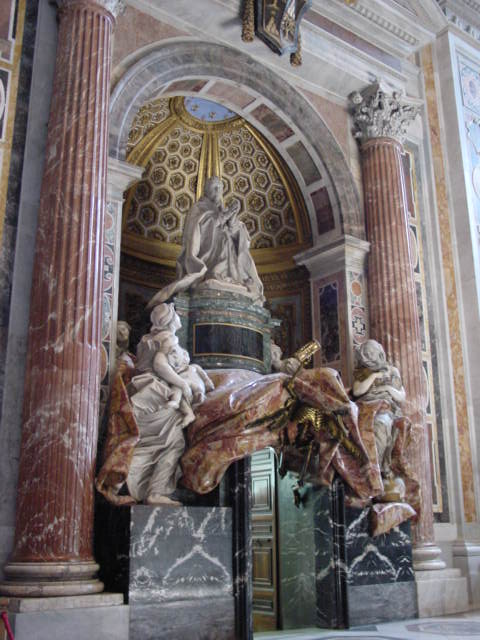 Sculptural monument designed by Bernini and situated in St Peters.